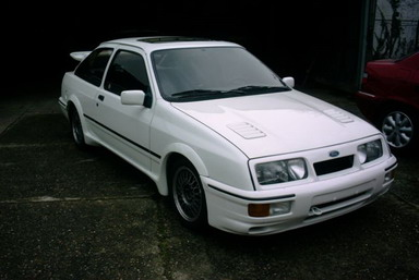 Ford Sierra RS Cosworth in white.